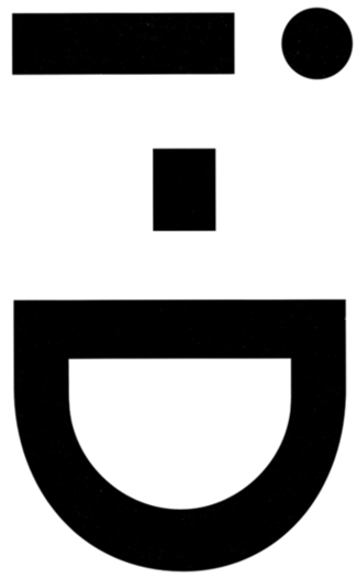 i-D logo.